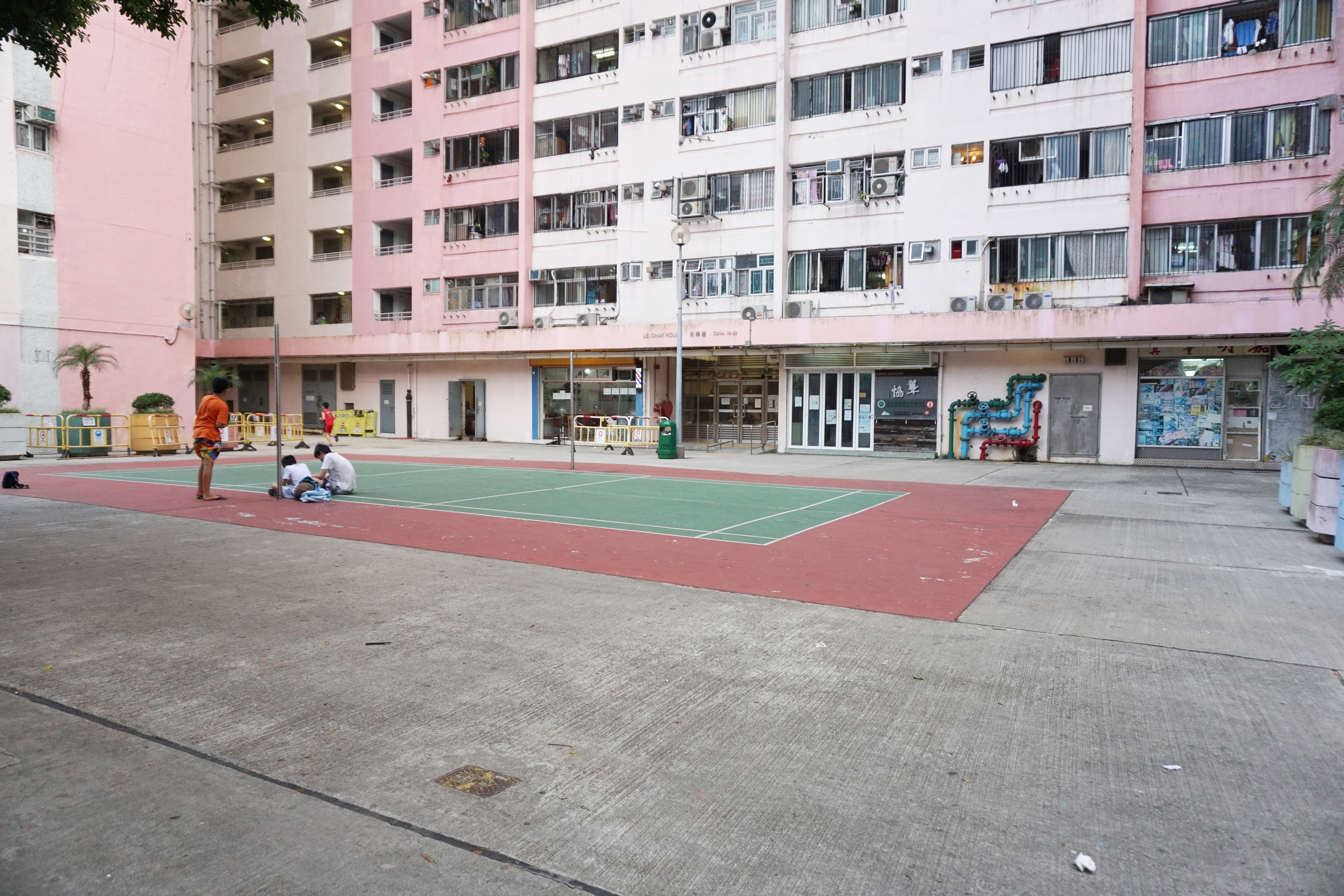 Ap Lei Chau Estate in Ap Lei Chau, Hong Kong.